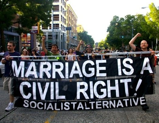 A photograph of Socialist Alternative (US) Members protesting in favor of LGBT Rights in Seattle.